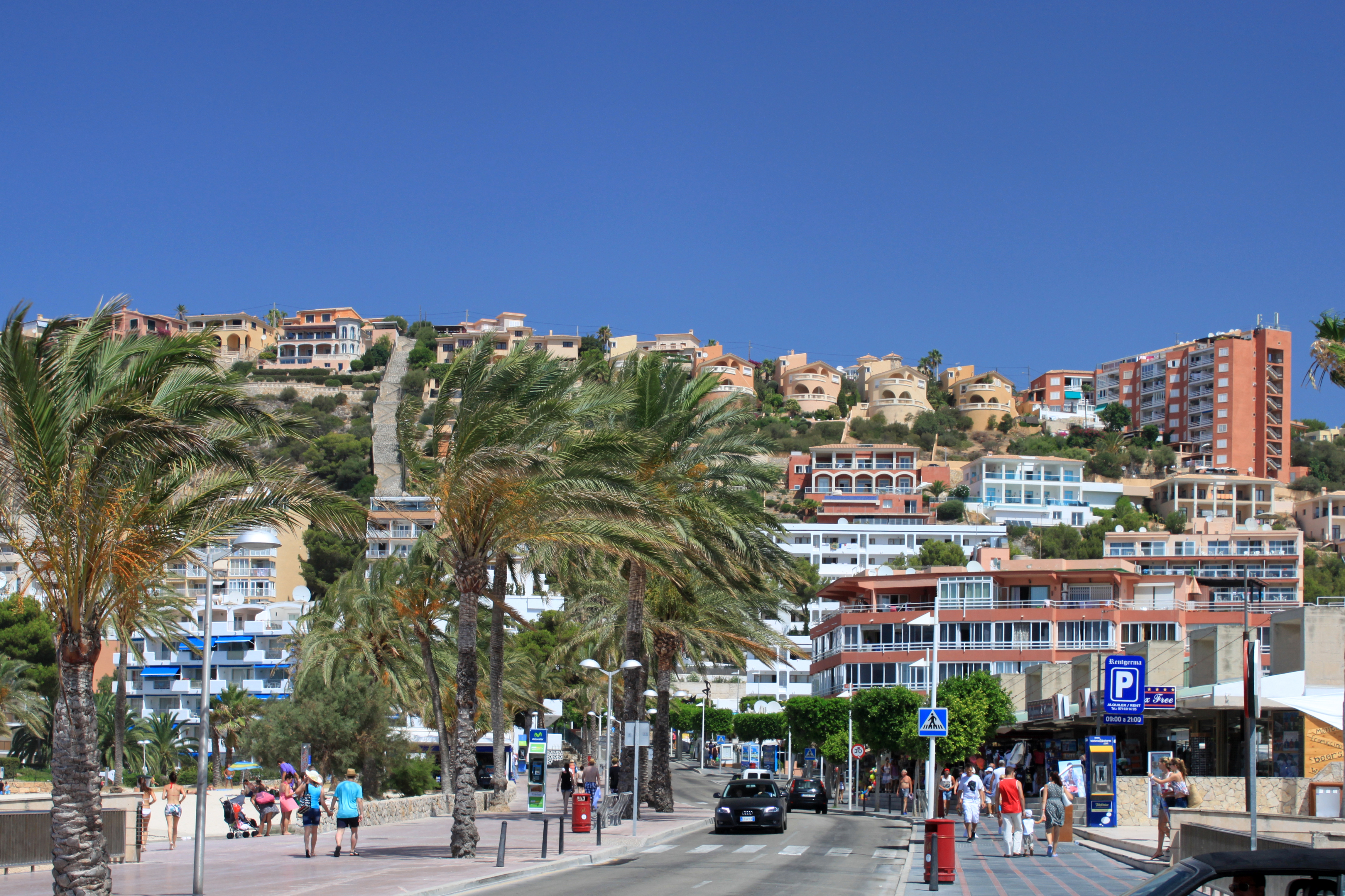 Santa Ponsa, Mallorca, in 2013